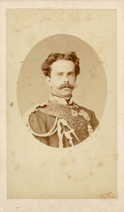 Fratelli D'Alessandri: King Umberto I of Italy (1844-1900).